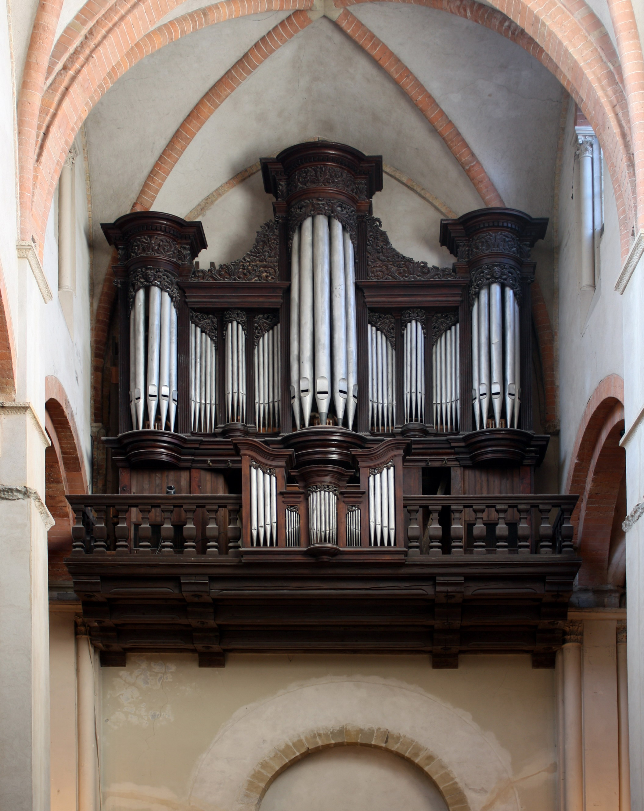 Great organ of the cathedral Notre-Dame in Grenoble.